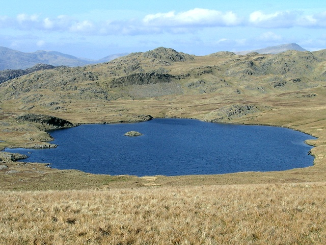 Llyn yr Adar, Snowdonia. On a gentle descent north of Cnicht lies this isolated, tranquil lake containing its own little island. This is the view from the south but the island lies in the square to the north.`